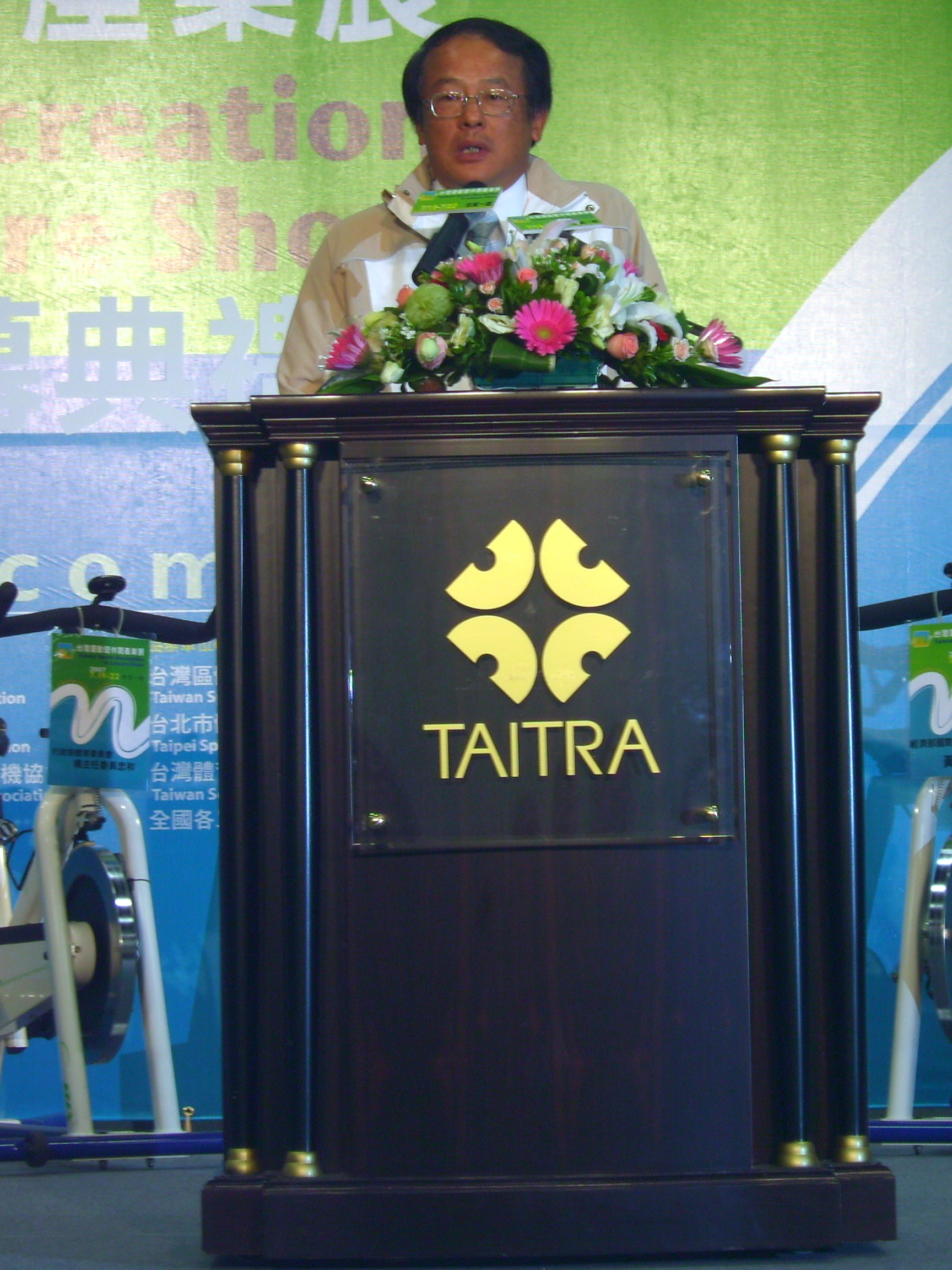 Chih-peng Hwang, Director-general of the Bureau of Foreign Trade, Ministry of Economic Affairs of R.O.C.